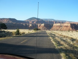 View of Boulder Mountain